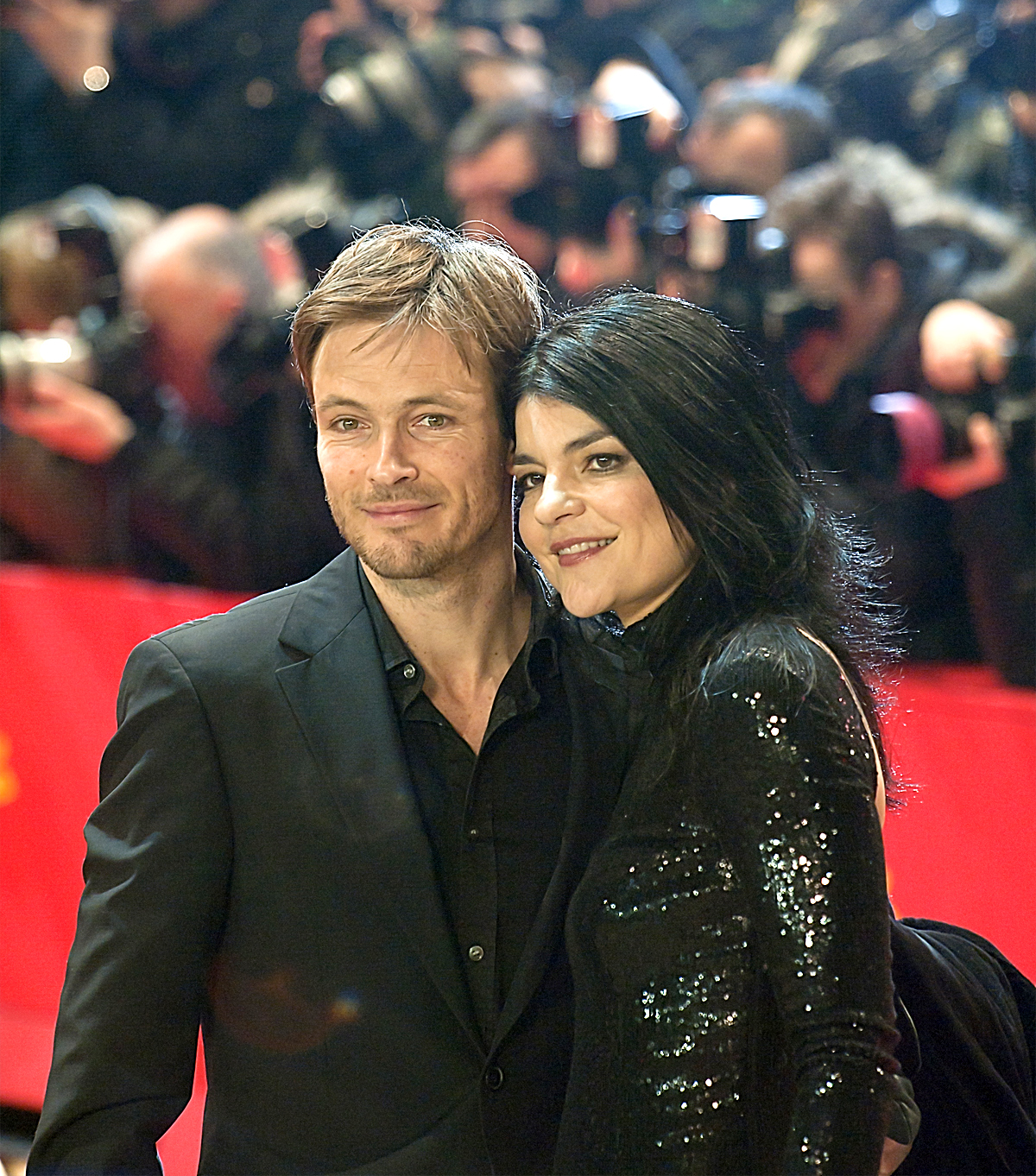 German-iranian actress Jasmin Tabatabai and her German colleague and companion Andreas Pietschmann arriving at the premiere of True Grit during the Berlin Film Festival 2011